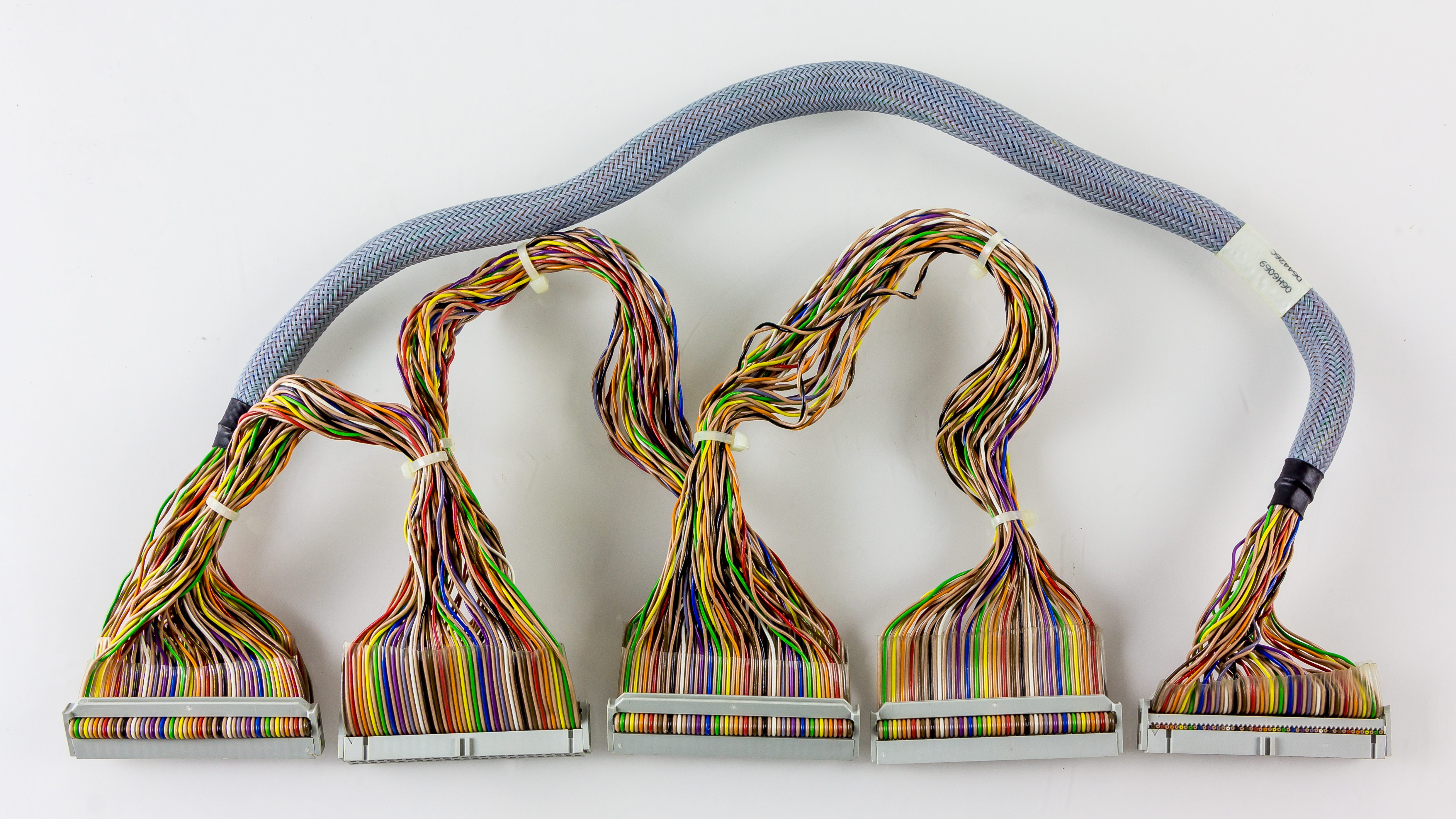 SCSI Daisy chain cable